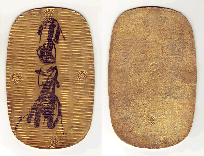 Old money of Japan, Keicho oban, 慶長大判金